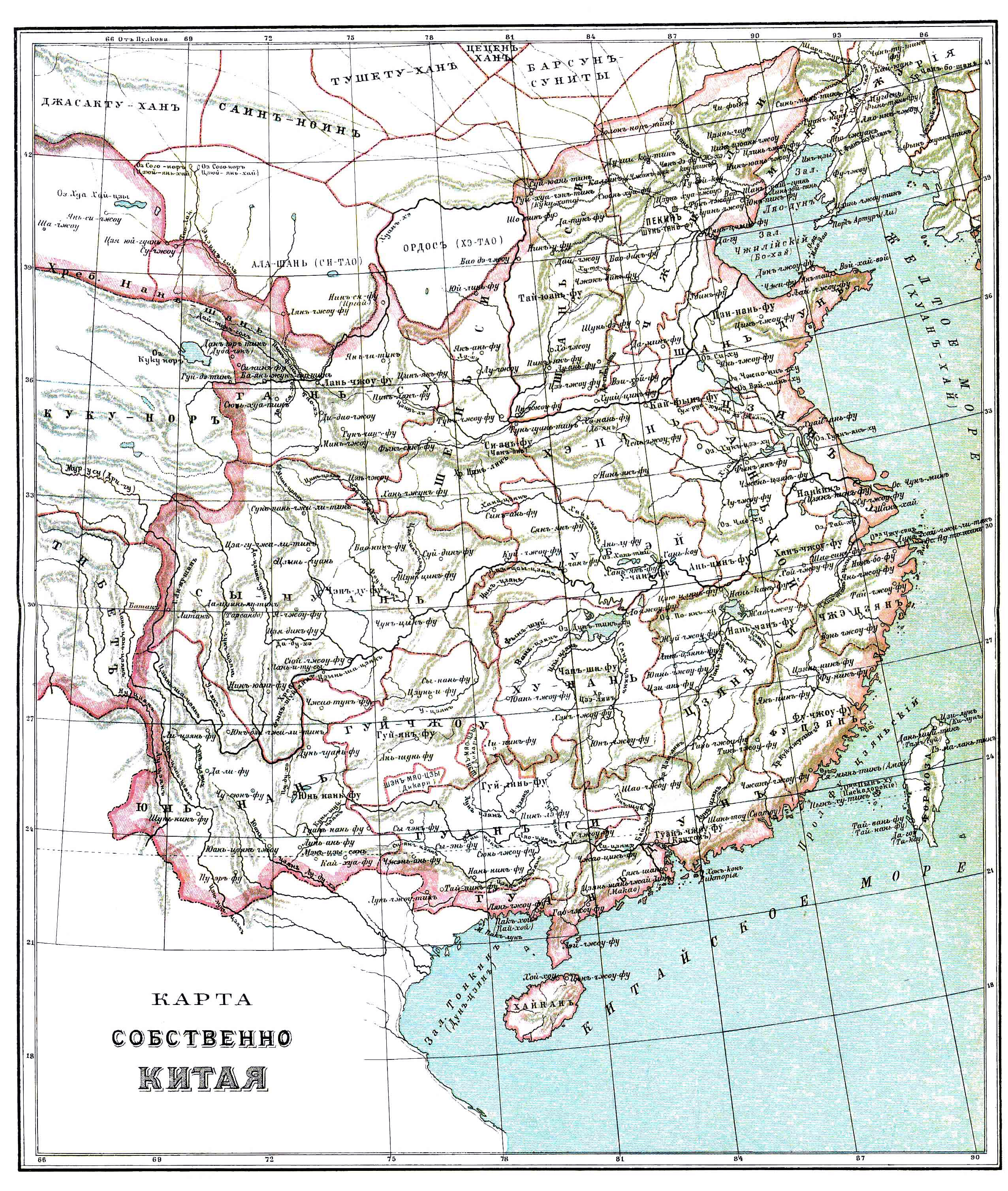 Illustration from Brockhaus and Efron Encyclopedic Dictionary (1890—1907)